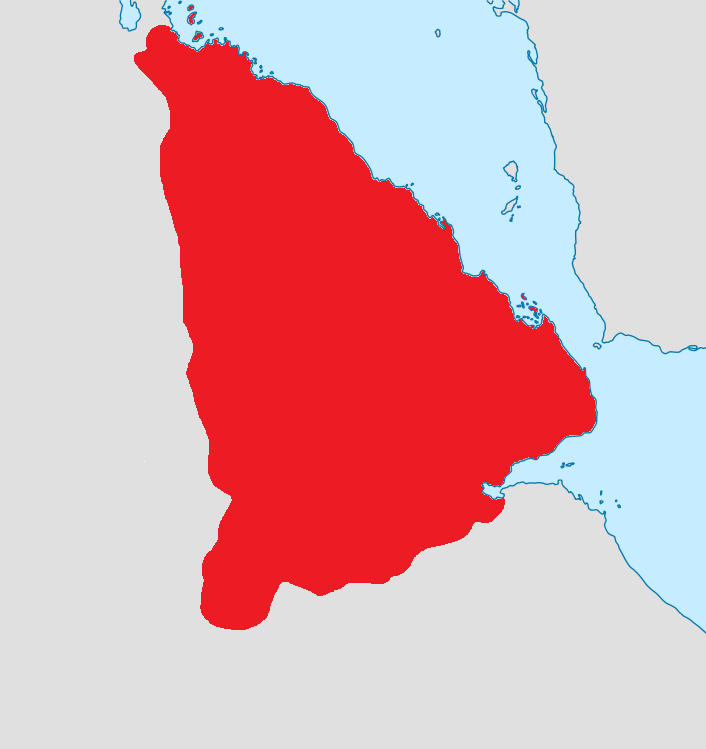 Danakil Desert Map